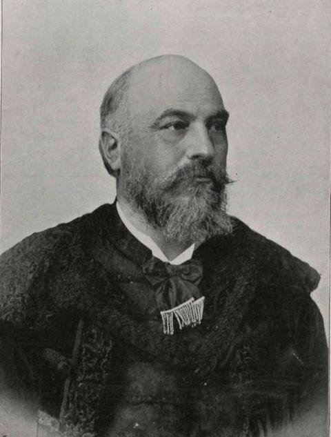 Portrait of the minister Ignác Darányi